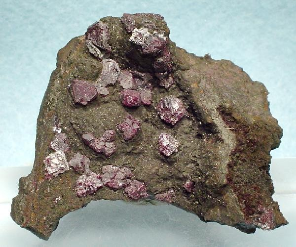 Cuprite, Delafossite Locality: Chengmenshan Cu-Mo-Au deposit, Jiurui Mining District, Jiujiang County, Jiujiang Prefecture, Jiangxi Province, China (Locality at ) Size: 4.7 x 4.3 x 2.8 cm. Lustrous, discrete, wine-red cuprite crystals to 6 mm aesthetically scattered on matrix covered by sparklly delafossite microcrystals from recent finds at the well-known Chengmenshan Copper Mine of Jiangxi Province. Excellent and showy material.